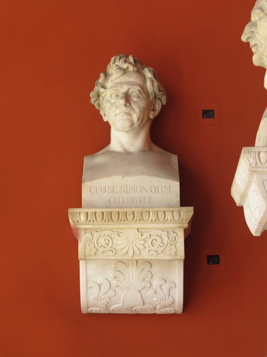 Munich, Hall of Fame, Bust of "Georg Simon Ohm" (German physicist)